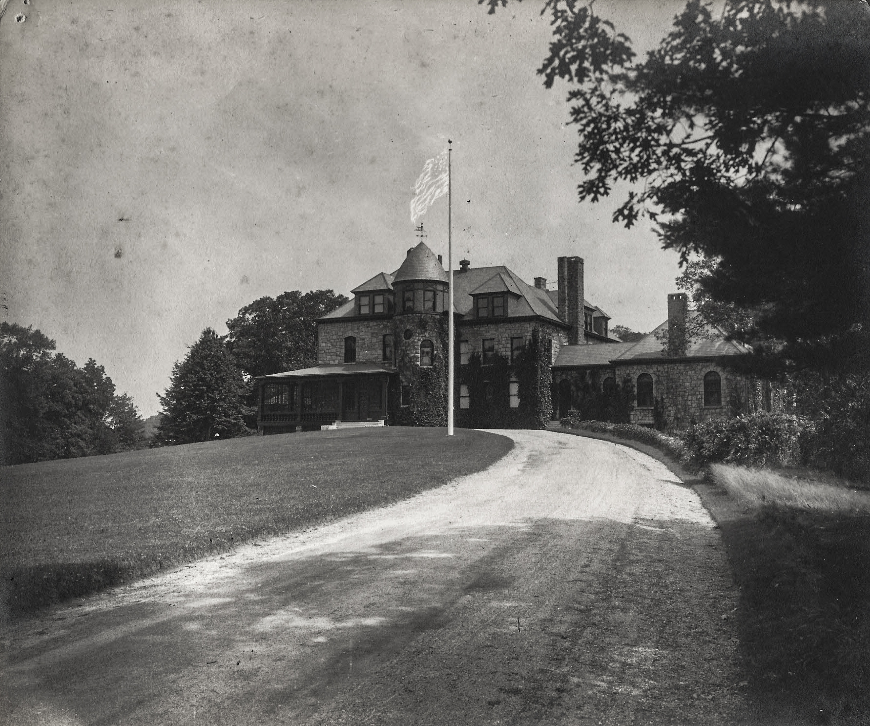 This is an image of the Manor House, Walter W. Law's house on Scarborough Road in Briarcliff Manor, New York.